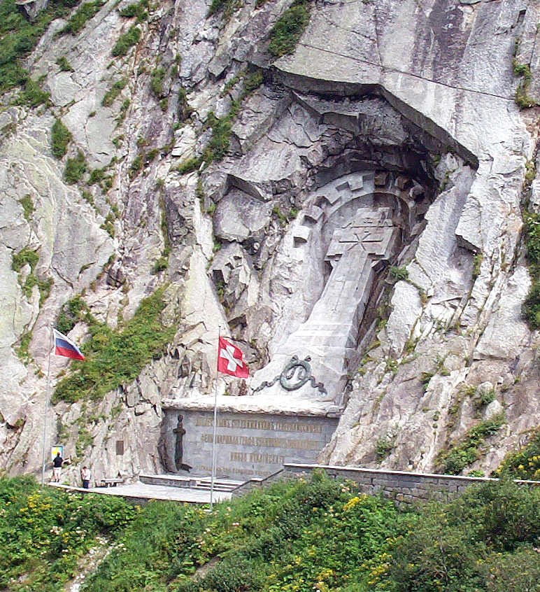 Suvorov monument for Alexander Suvorov (Switzerland)